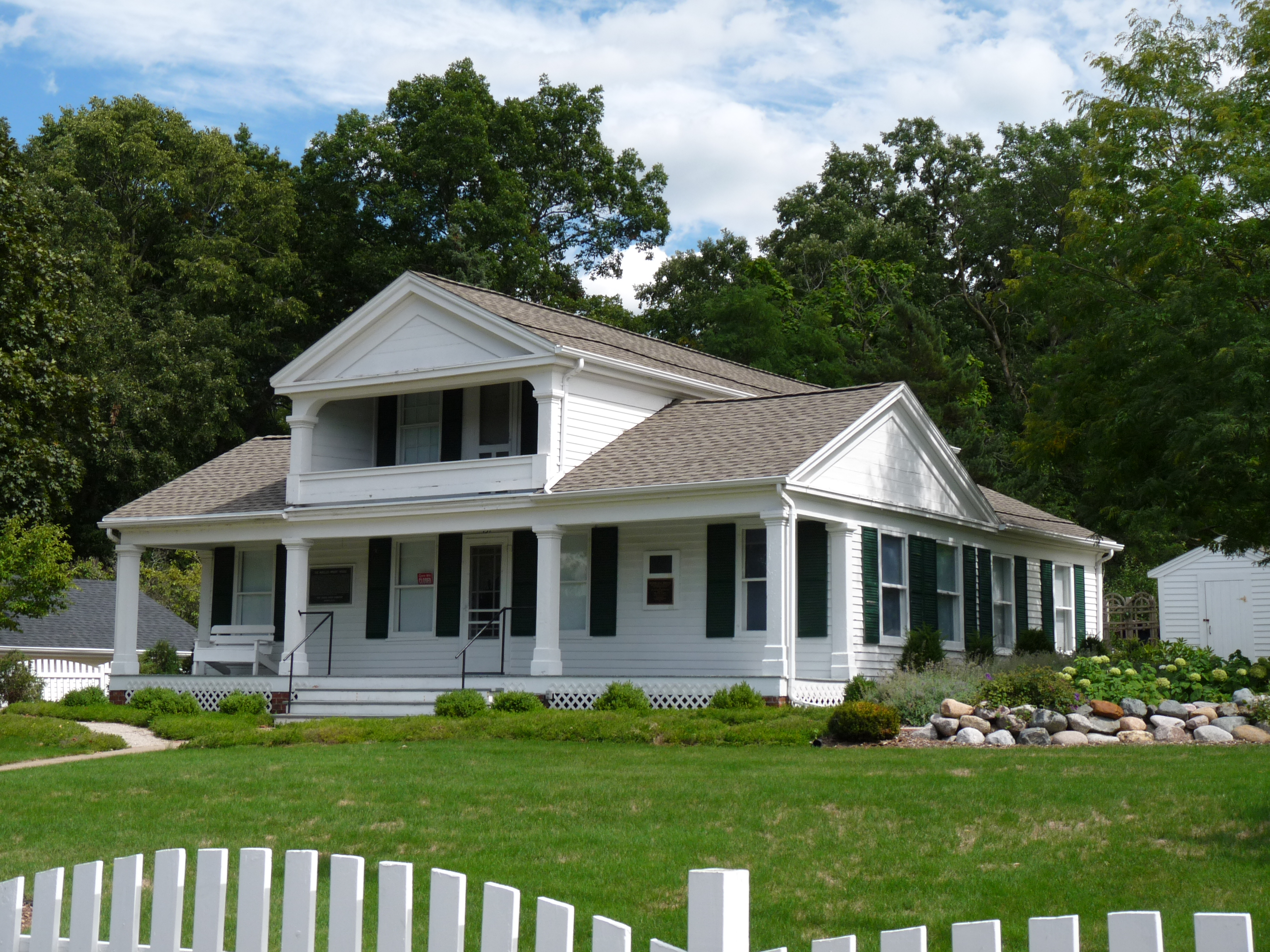 The Mueller-Wright House in Wrightstown, Wisconsin. Built by Hoel Wright, a founder of the town in the 1840s, since 1978 the house has been listed on the National Register of Historic Places and it is today the museum of the Wrightstown Historic Society.